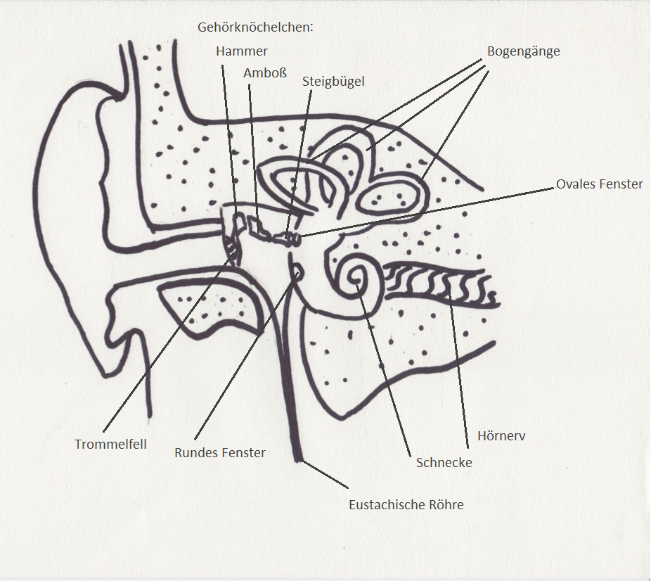 Anatomy of the ear with annotations